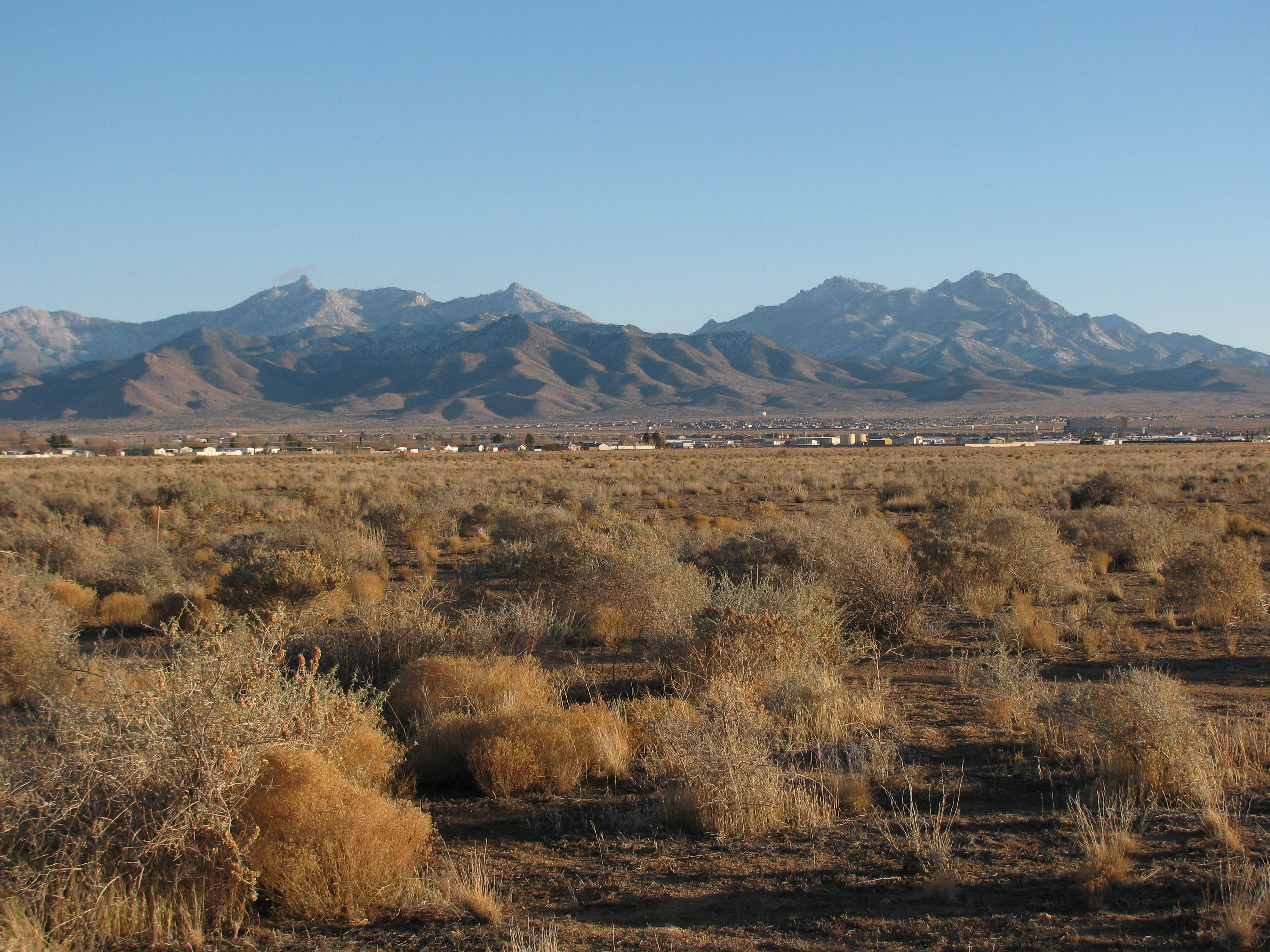 The Hualapai Mountains with a light dusting of snow in late December, seen from Kingman, Arizona. The photograph was taken from Northern Avenue just east of Bank Street looking south-southwest.